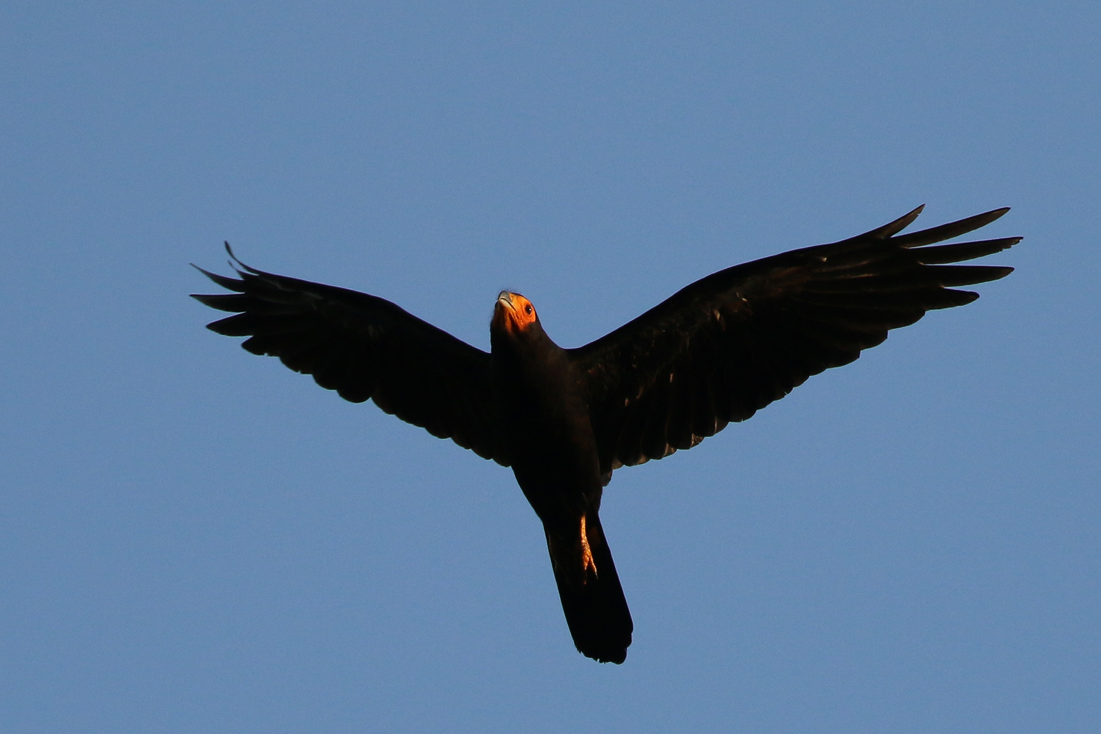 Black caracara (Daptrius ater) in flight, Cristalino Lodge, Southern Amazon, Brazil